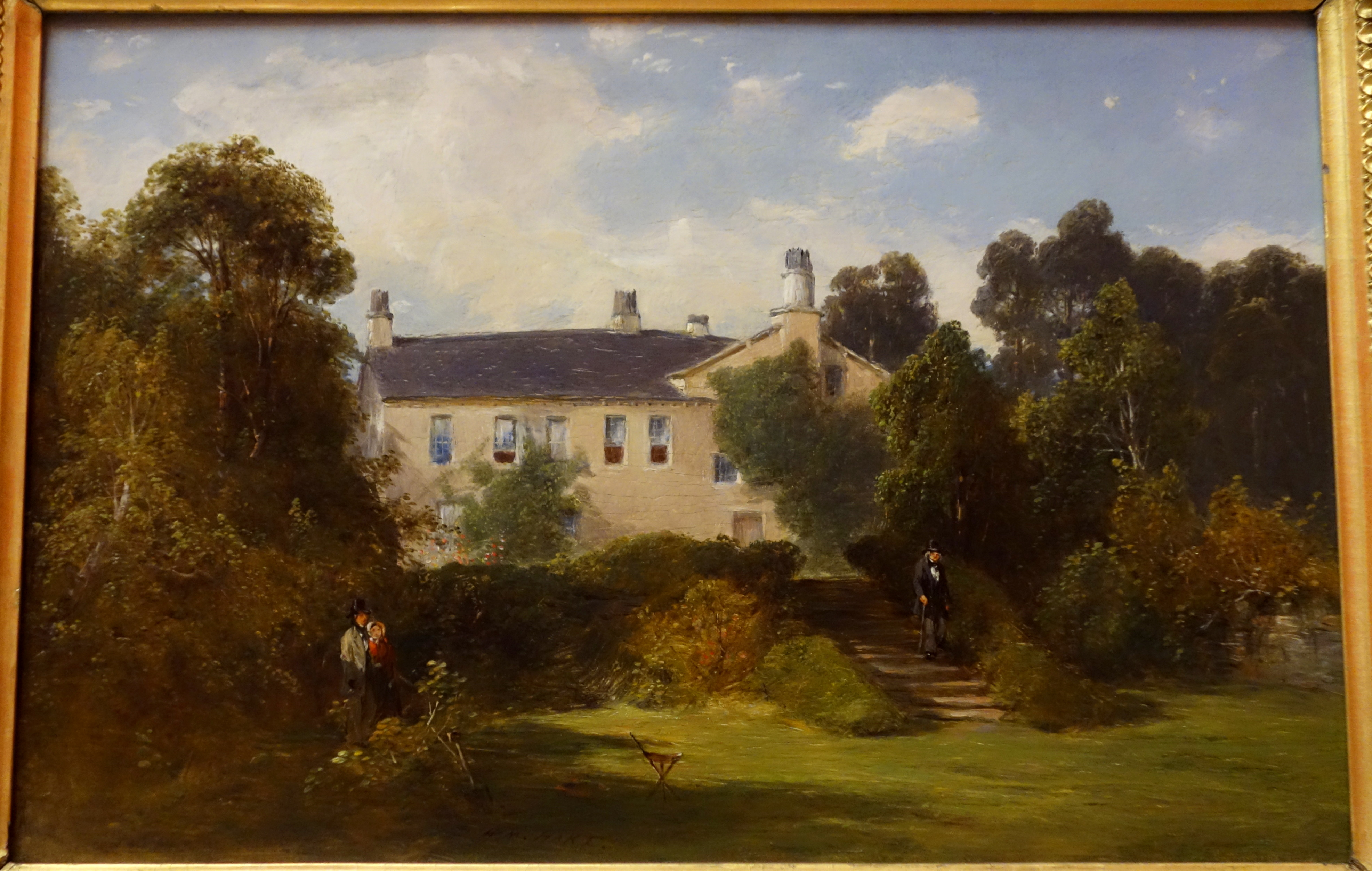 Exhibit in the Albany Institute of History and Art, Albany, New York, USA. This artwork is in the public domain because the artist died more than 70 years ago.